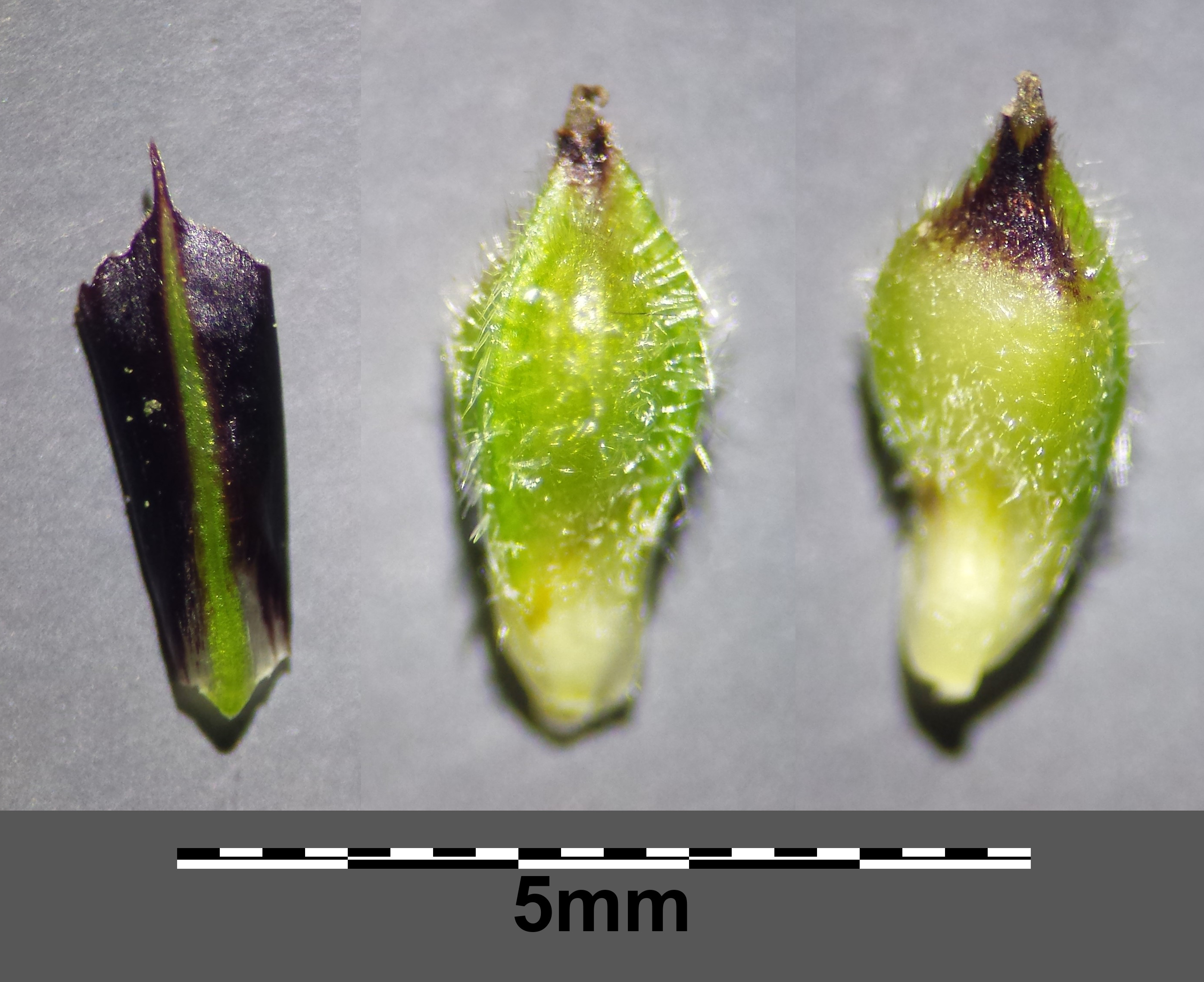 Utricle with glume Taxonym: Carex montana ss Fischer et al. EfÖLS 2008 ISBN 978-3-85474-187-9 Location: Rohrwald, district Korneuburg, Lower Austria - ca. 320 m a.s.l. Habitat: Carpinion betuli